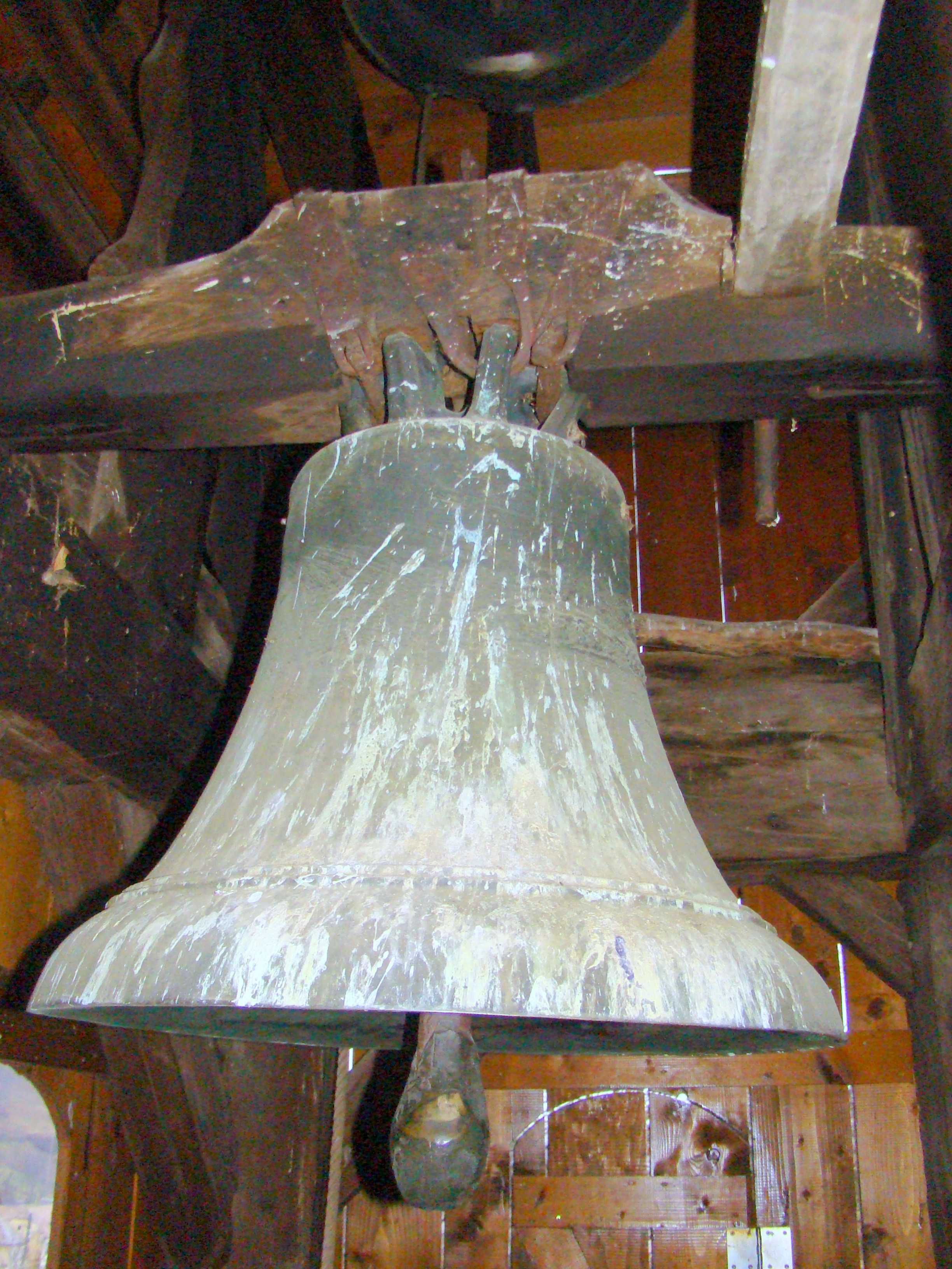 Lutheran church in Dupuș, Sibiu County, Romania